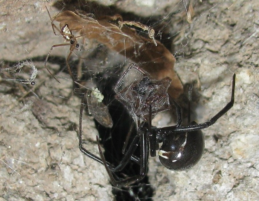 Latrodectus hesperus, female - western black widow Identification: The spider was judged to be a western black widow and not an eastern or northern based on the location. Its egg sac was observed a few weeks after this image was taken and it was black widow like and not brown widow like. Description: There is a wrapped up moth with eggs laying on its exterior. The female black widow was observed to have killed and wrapped this moth. The wrapped up prey in the foreground was a funnel web spider. The source of the eggs on the moth is not certain. They may have been those of the funnel web spider that were laid just before it was killed. The smaller spider may have been a Steadota male. There were several of these smaller spiders in this nest and a Steadota female was observed in the nest. Two much larger male black widows were also observed in the outer periphery of this nest. The images of these can be seen here: Location: Fullerton, CA, USA